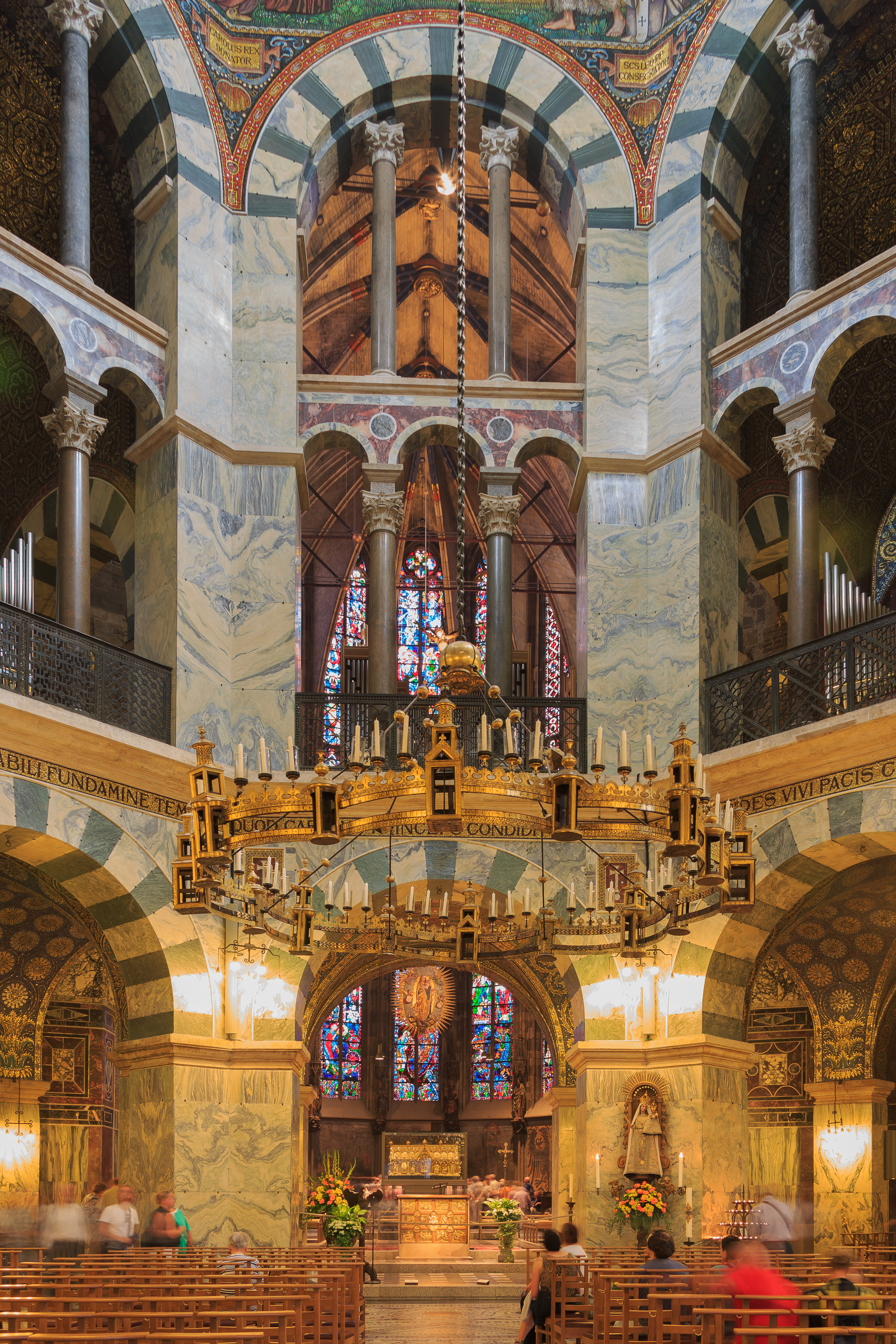 Aachen, Germany:Barbarossaleuchter in the Palatine Chapel of the Imperial Cathedral